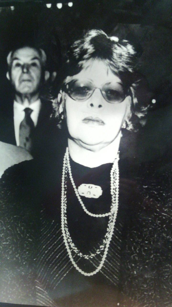 Vesna Saranovic Svetek